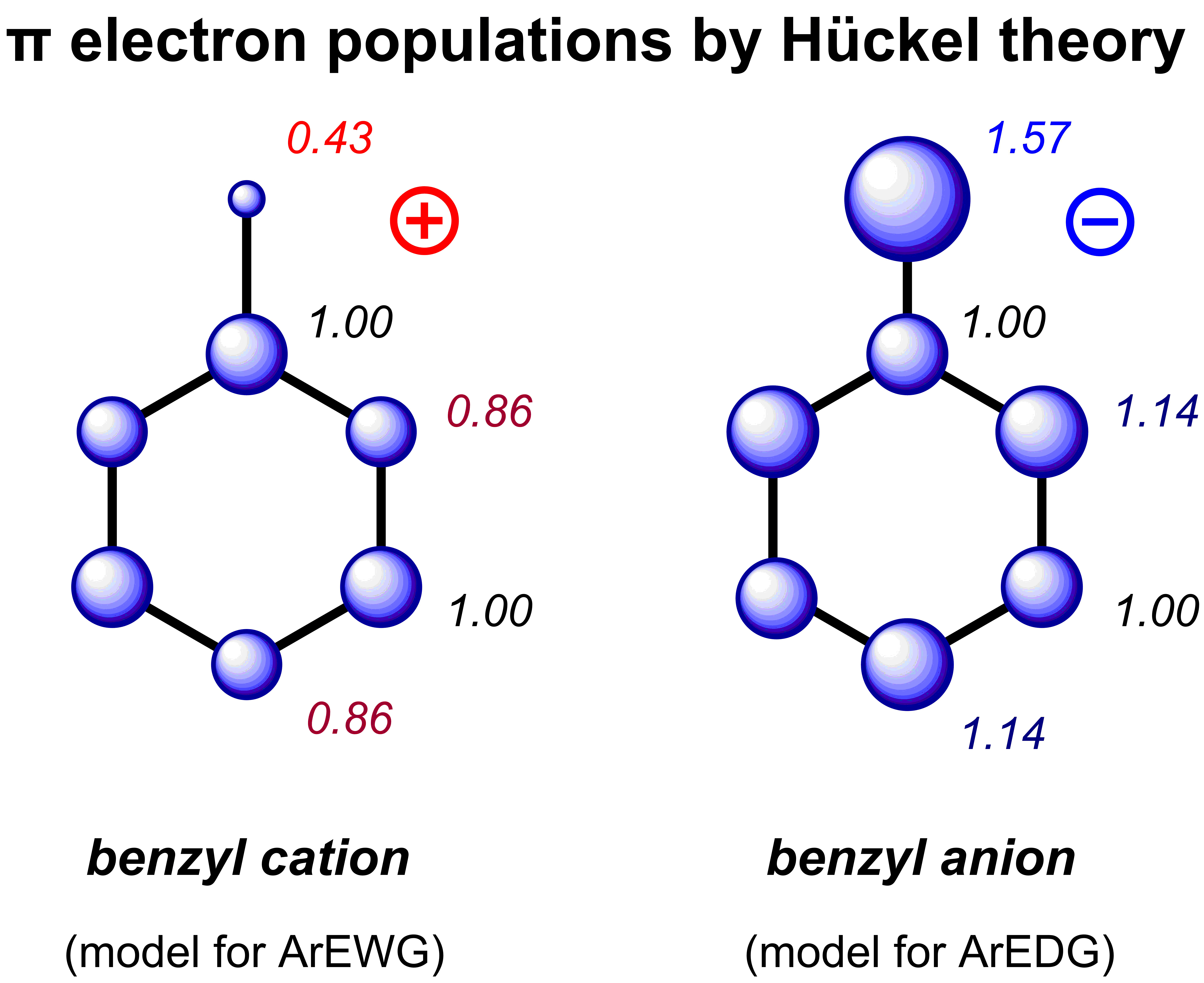 benzyl cation and anion as models for EAS